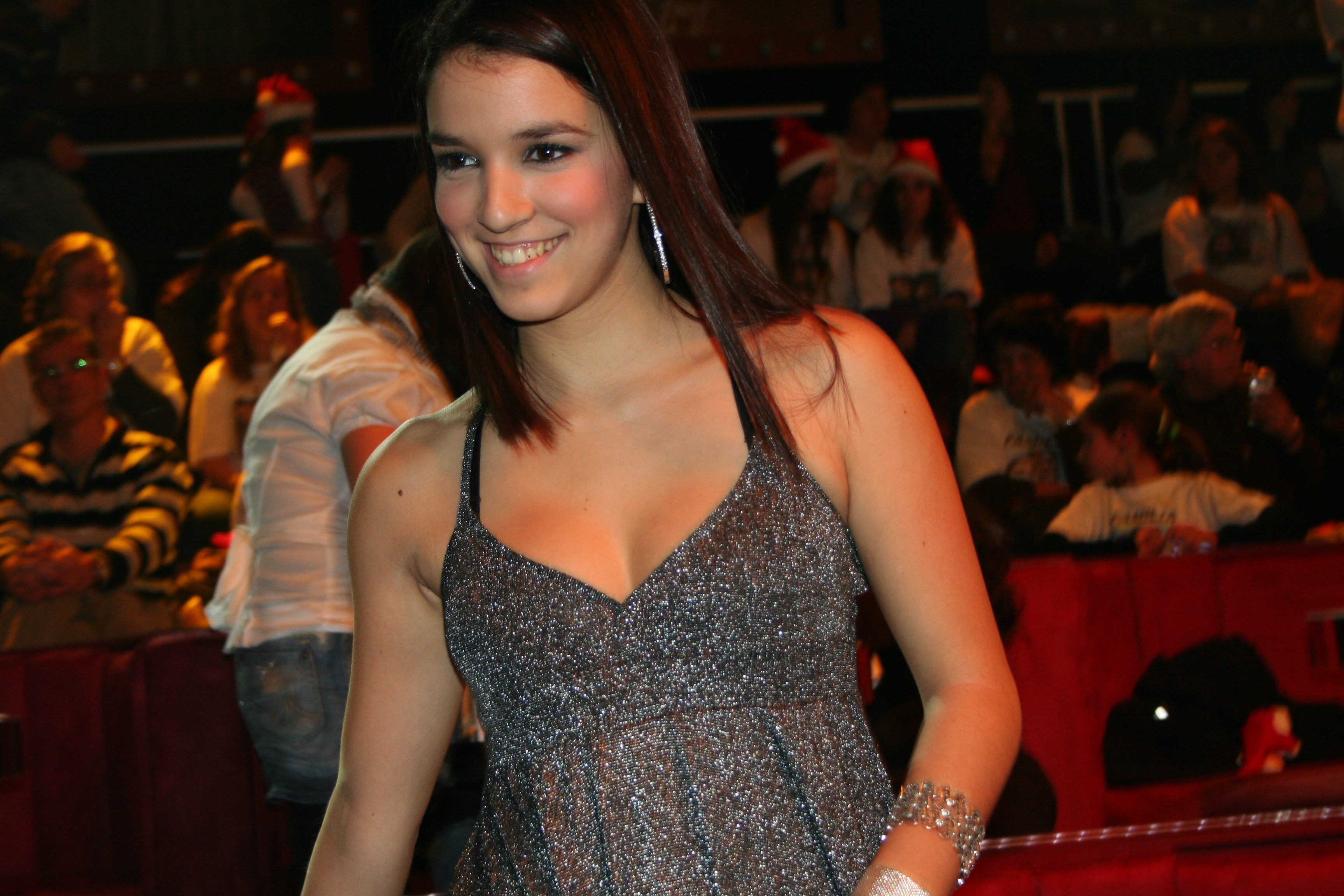 Catarina Pereira in the Christmas gala of Família Superstar